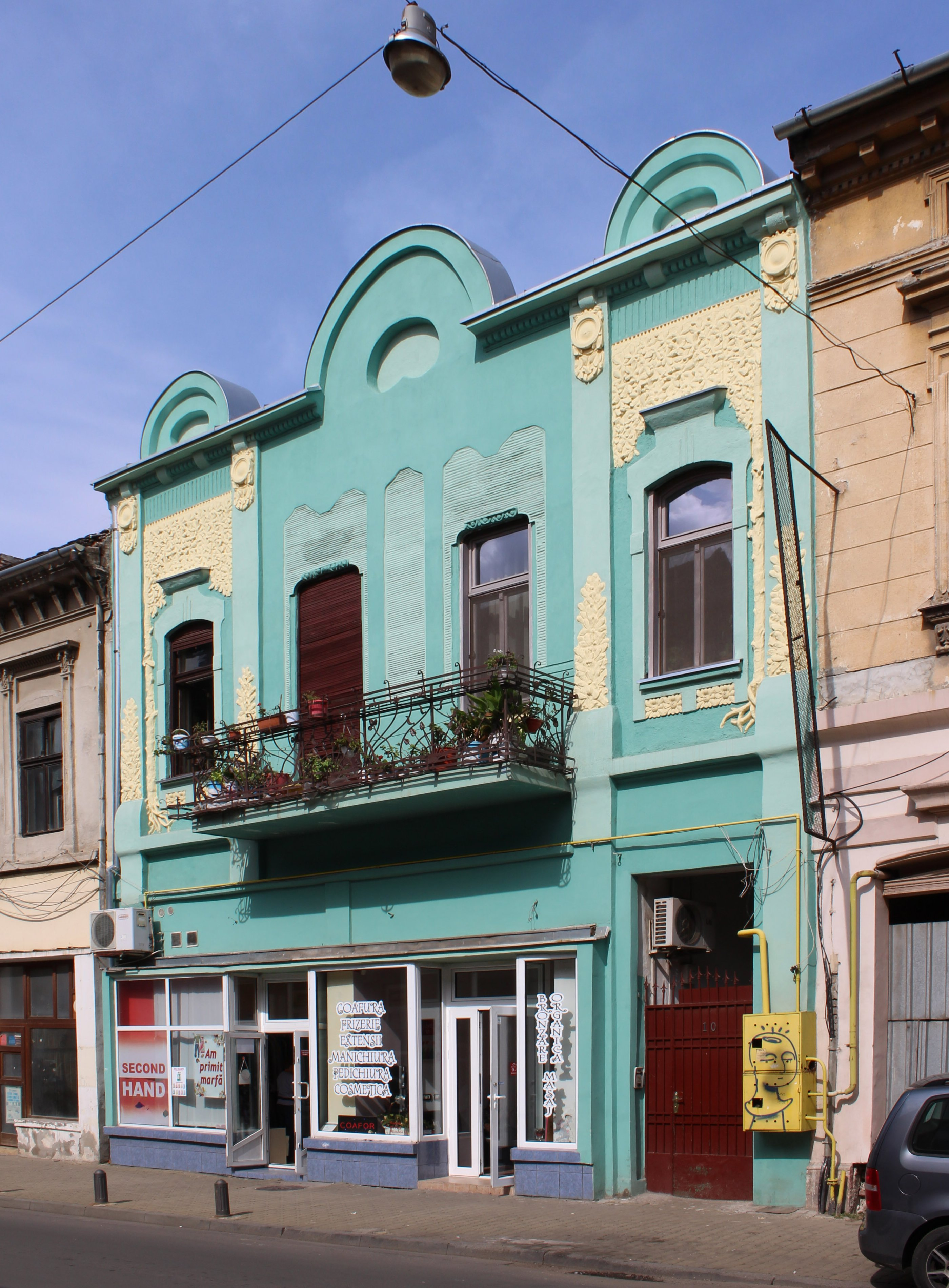 House, str Mihai Eminescu 10, Arad, Romania, built 19th century.